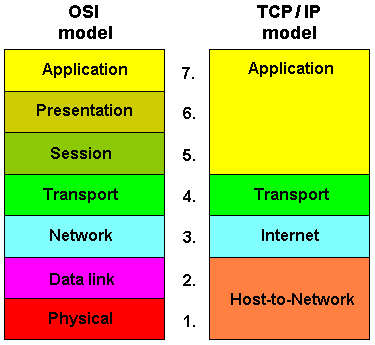 OSIandTCP